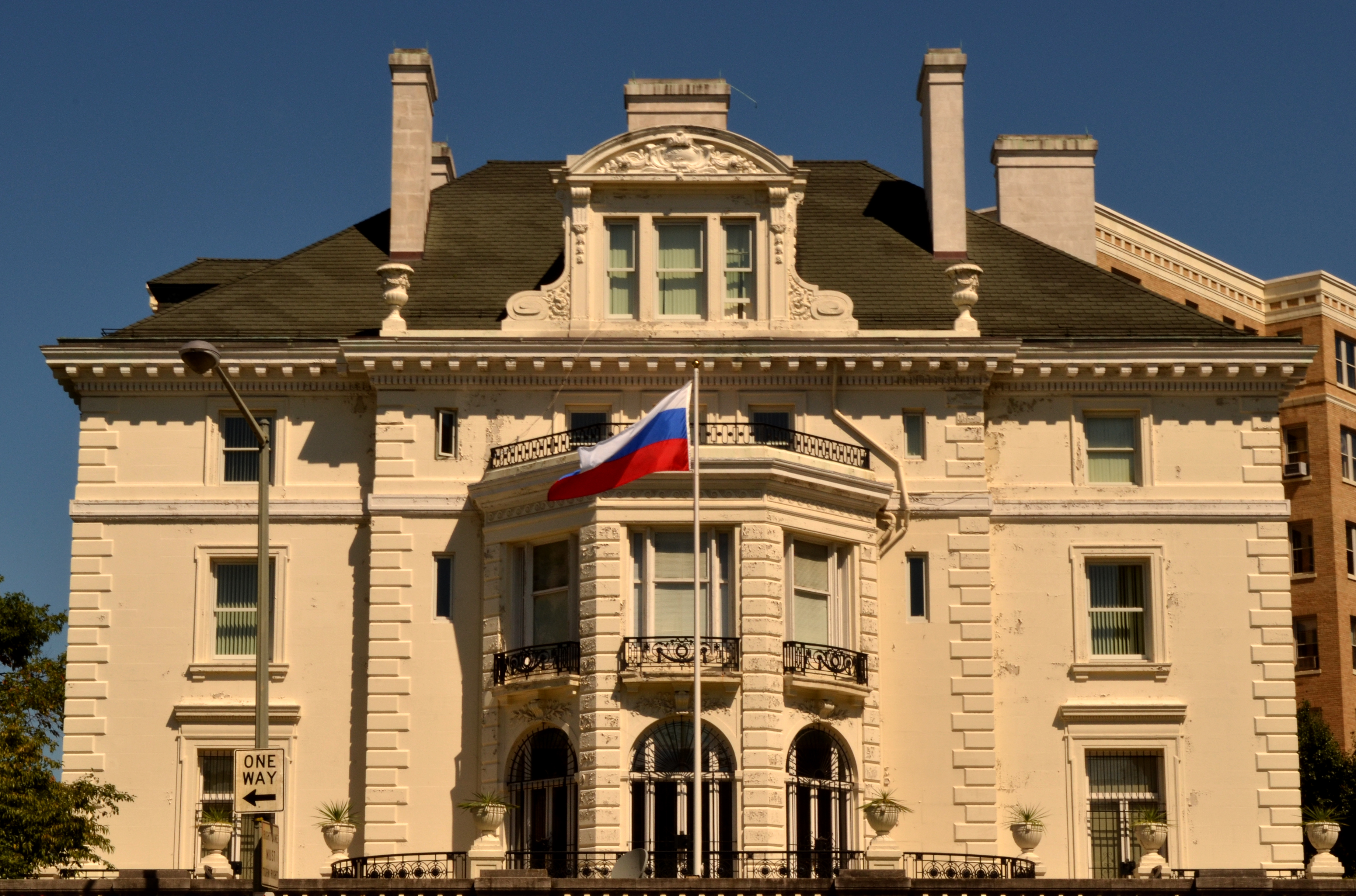 Building of Trade Representation of the Russian Federation in the United States of America